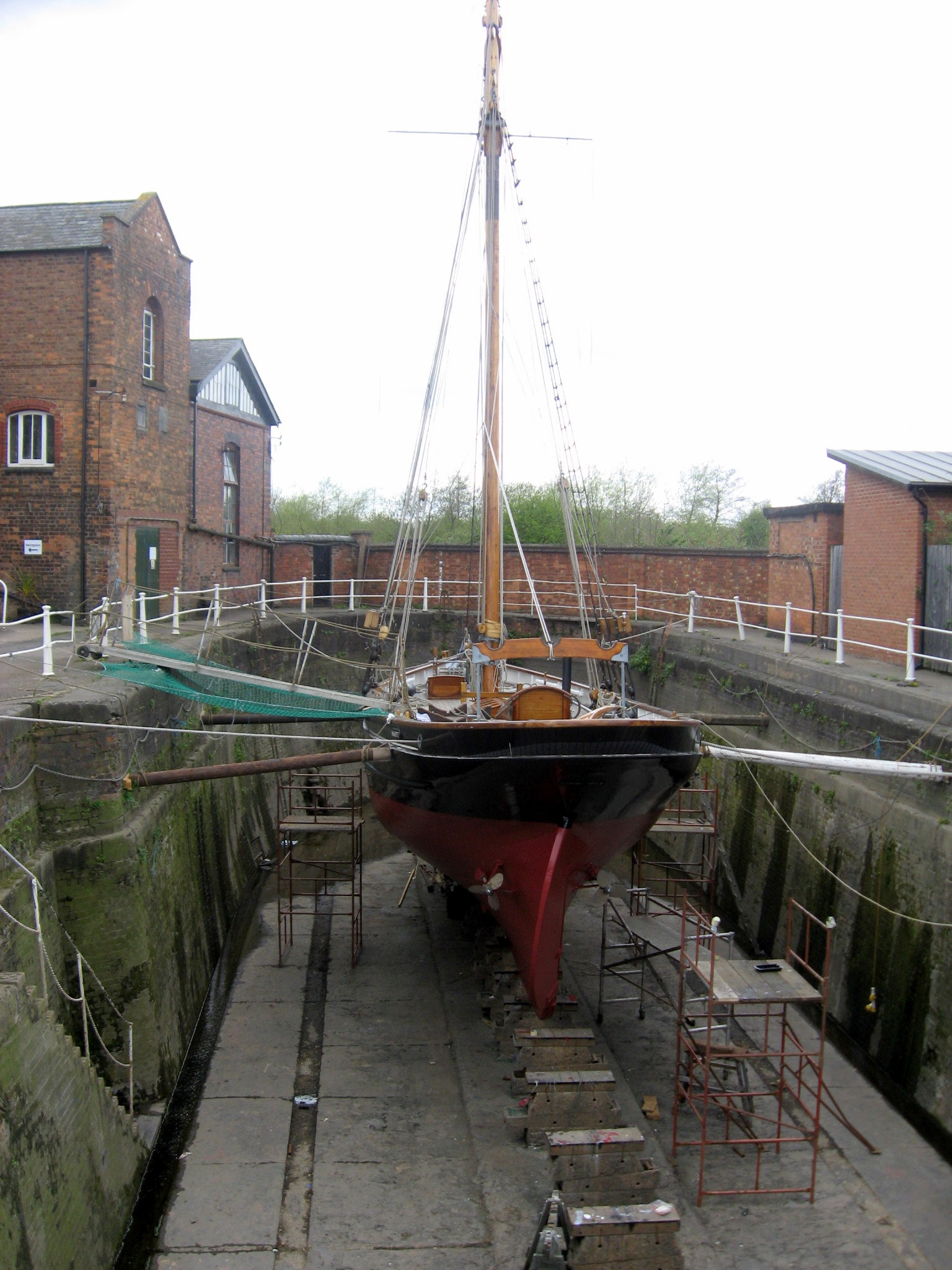 Dry dock at Gloucester Docks